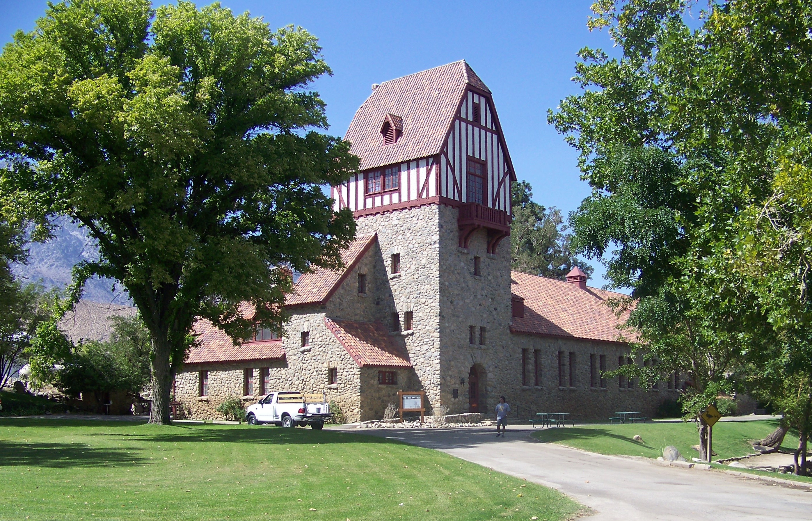 The Mount Whitney Fish Hatchery — located in the Owens Valley, near Independence, California. The 1918 building is an example of Tudor Revival architecture in California.